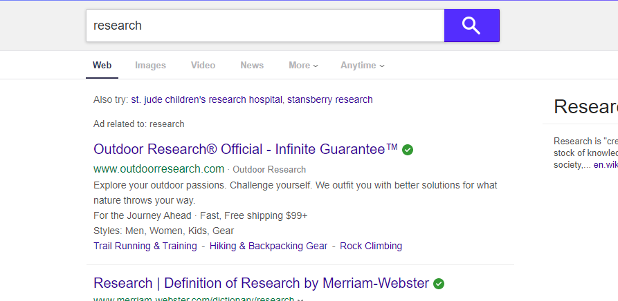 Advertisements are the first results on a Yahoo! search page.